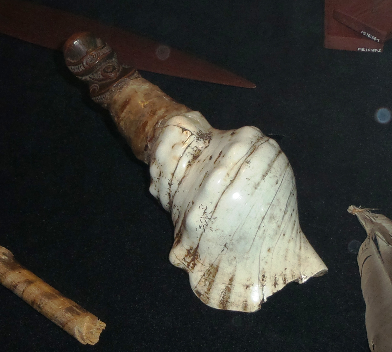 A pūtātara (trumpet) in Te Papa, Museum of New Zealand in Wellington.